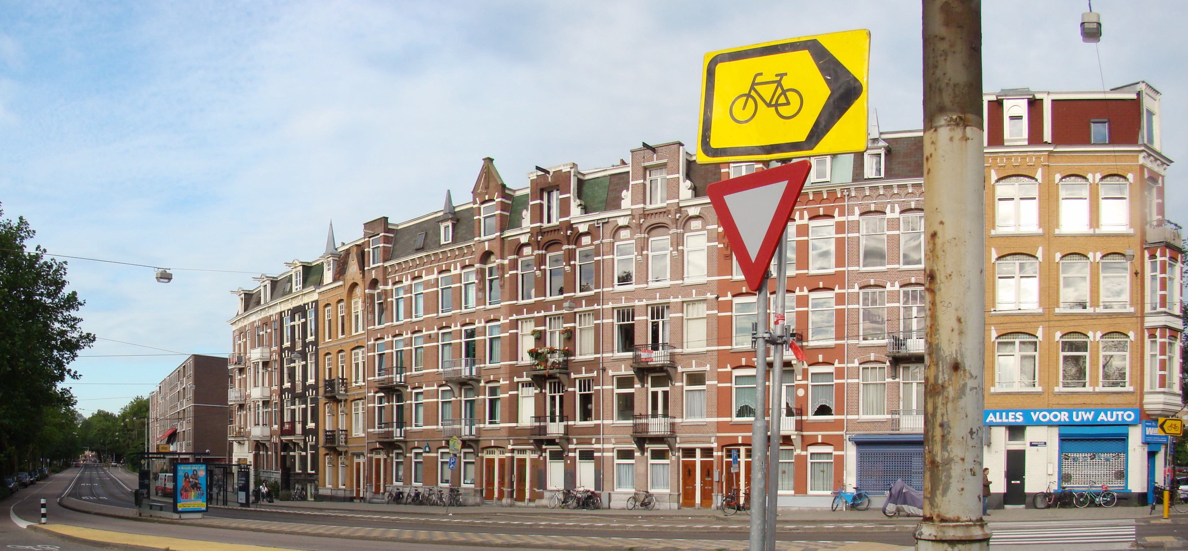 Nassaukade street in Amsterdam, Netherlands